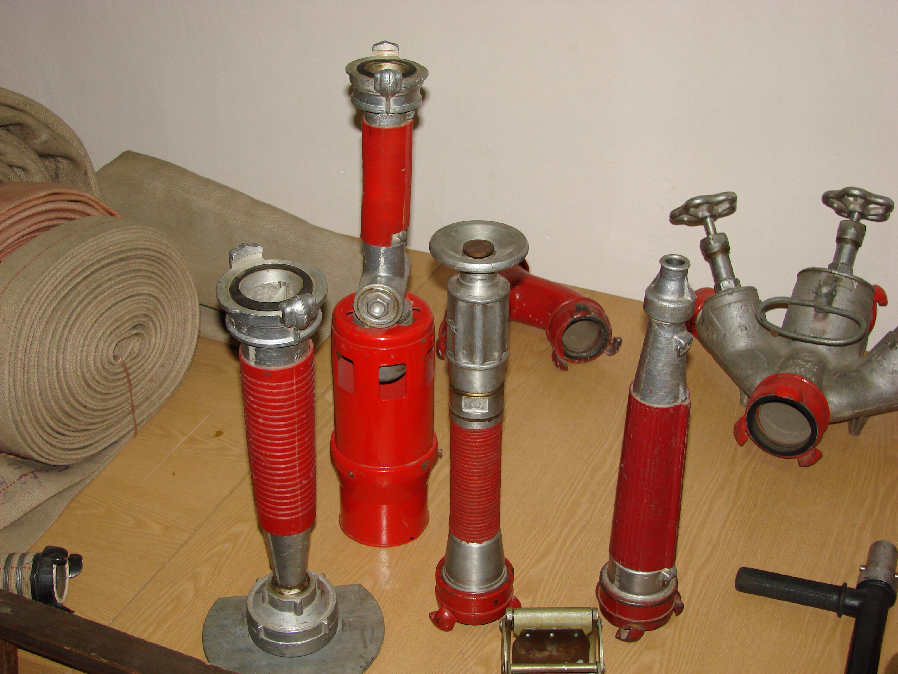 Russia, Vologda firefighting museum, nosepiece?